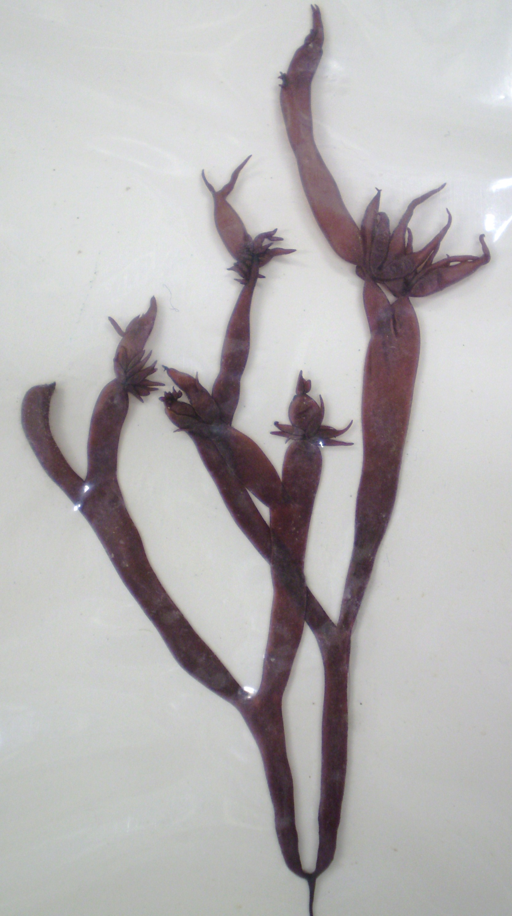 Specimen of Gloiopeltis furcata (Endocladiaceae)